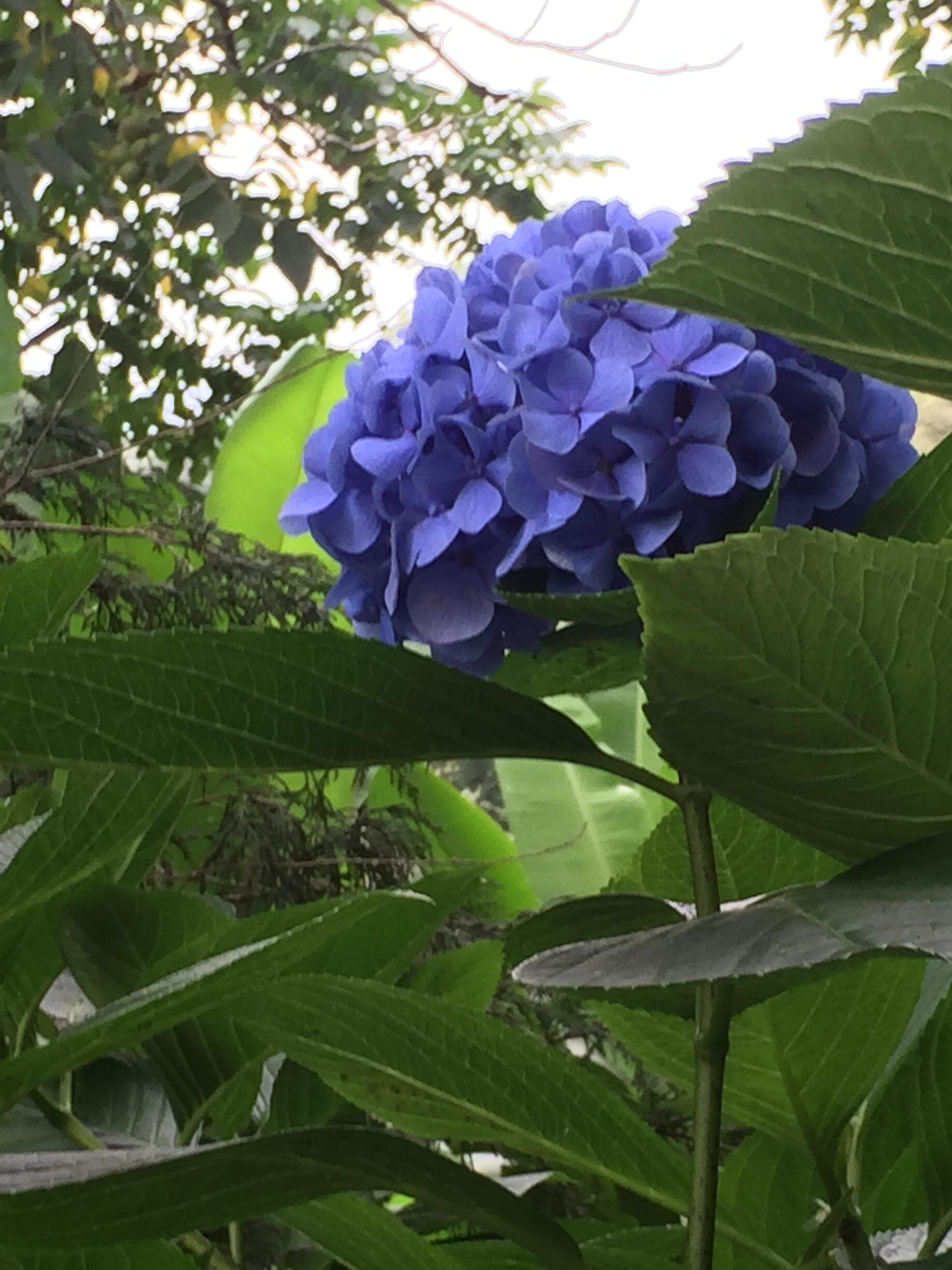 Flowers